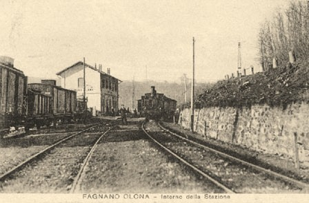 Fagnano Olona railway station - 1